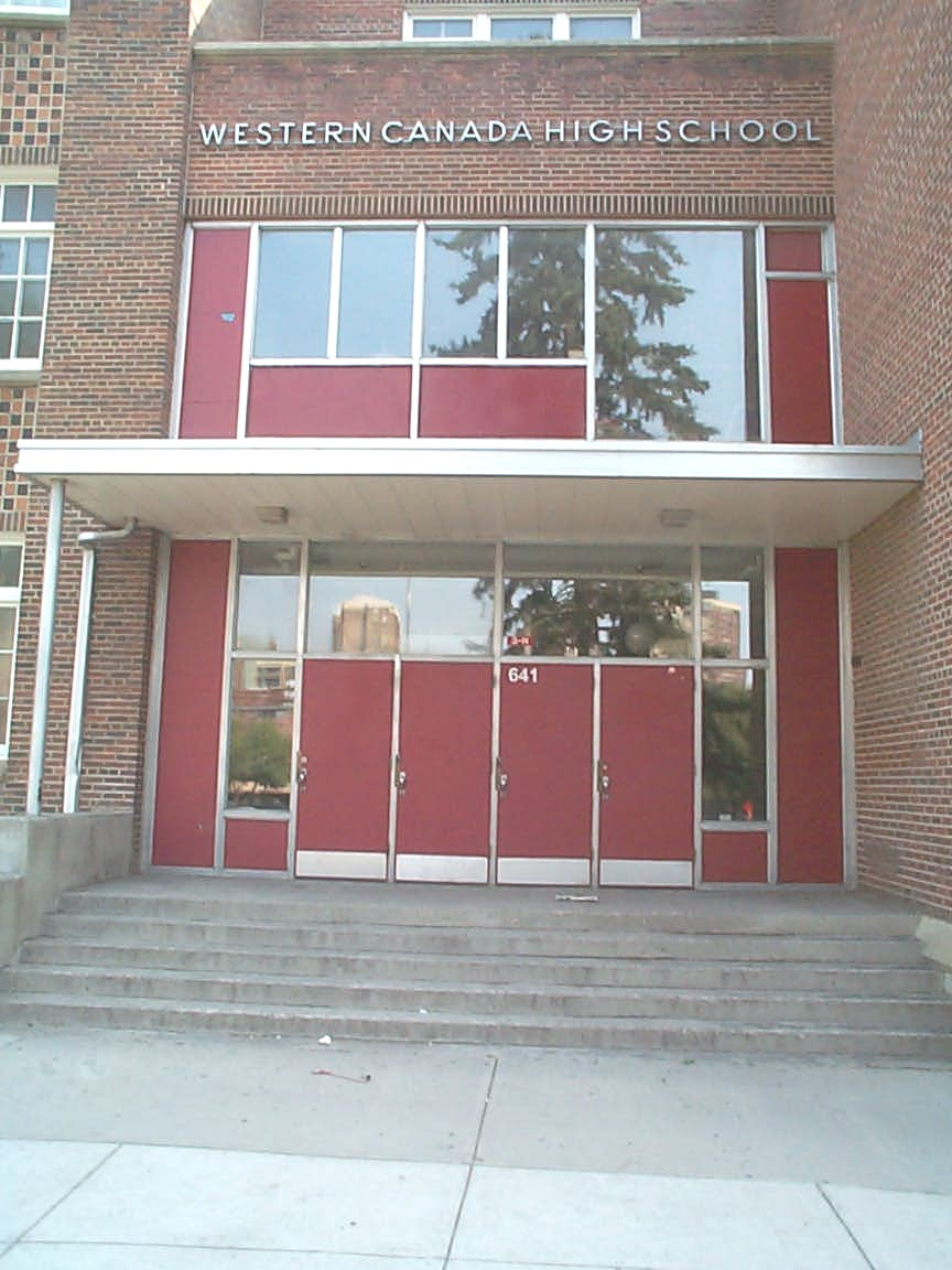 Front (north) side of Western Canada High School, 641 17 Avenue SW, Calgary, Alberta, Canada. This is a close-up of the main entrance.